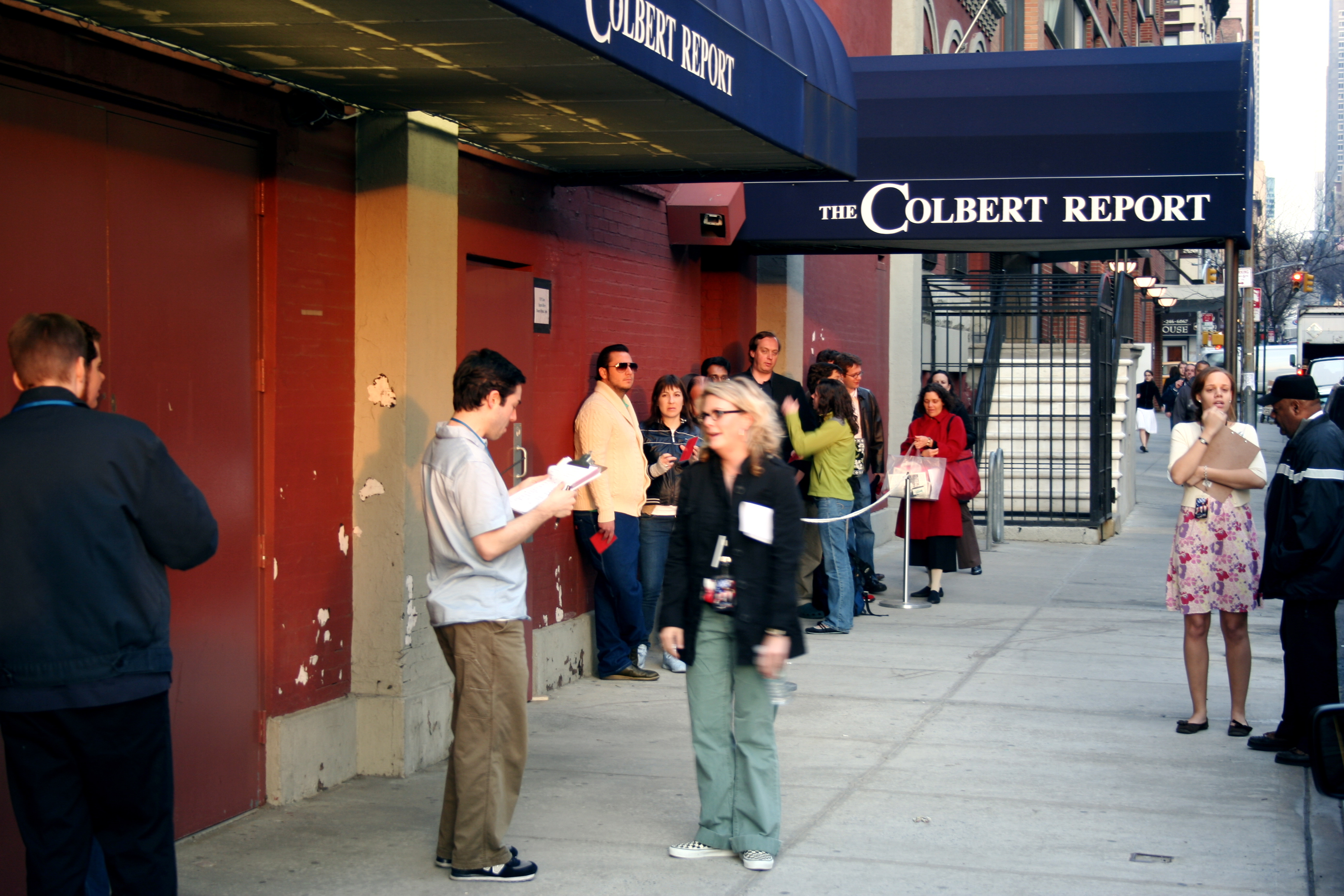 Studio for The Colbert Reportwaiting on line for stephen